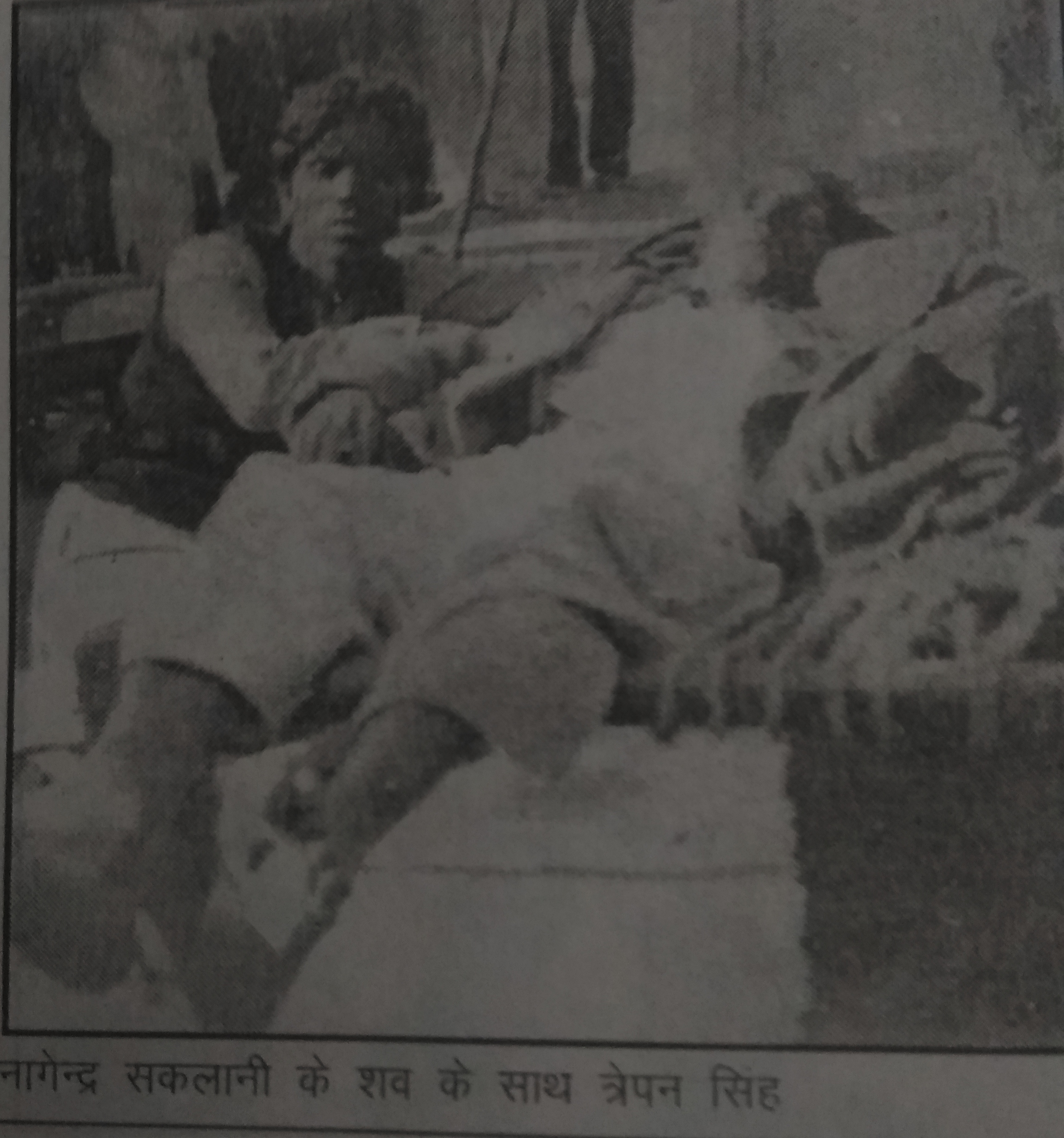 Scanned image from Satya Prasad Raturi's book Tihri Rajya Ke Jan Sangarsh Ki Swarnim Gatha. Adapted for the book Mukh Jatra with permission